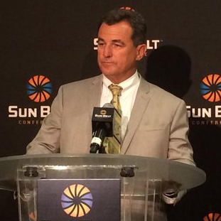 Joey Jones, head coach of the South Alabama Jaguars football team, at the 2015 Sun Belt Conference Media Day in the Mercedes-Benz Superdome in New Orleans.